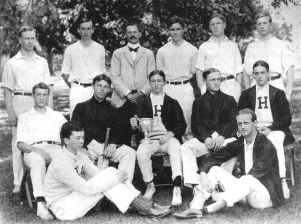 The Haverford College Cricket team including Christie Morris.